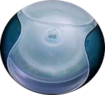 An Apple iMac mouse with a transparent background